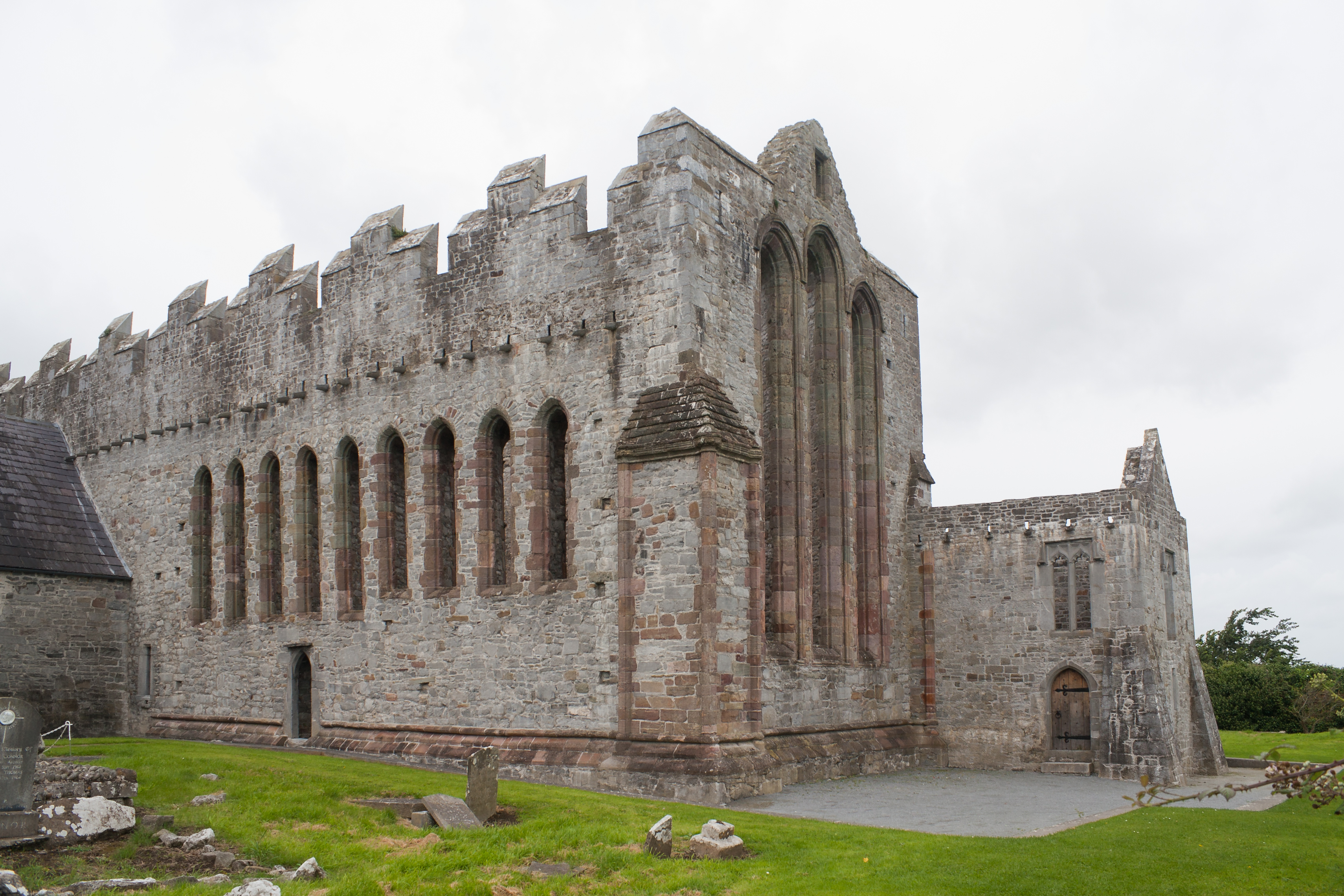 South and east windows of the choir.